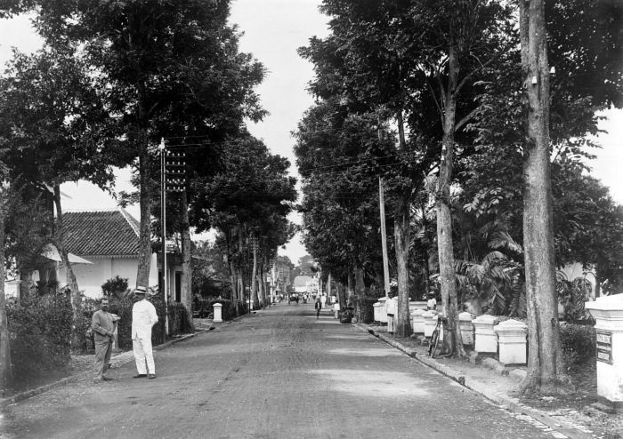 Street view